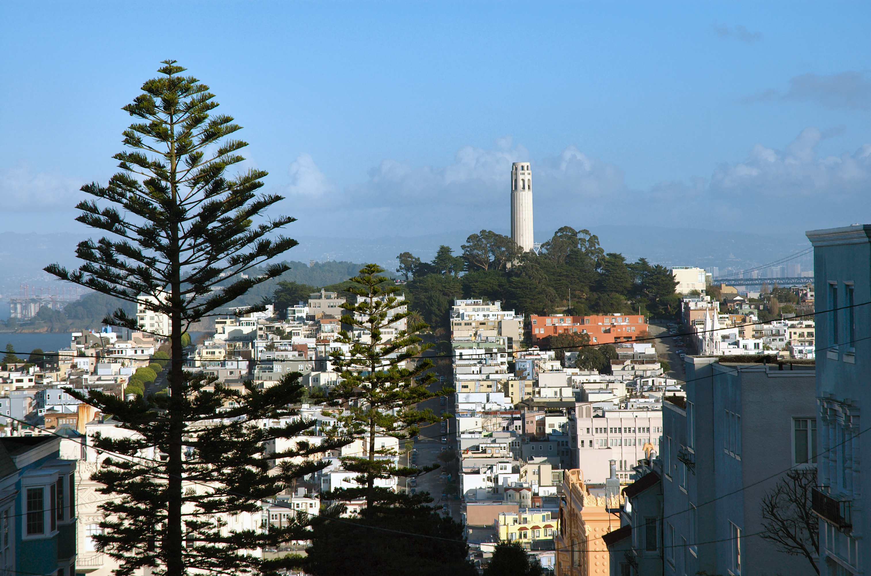 Coit Tower from Russian Hill